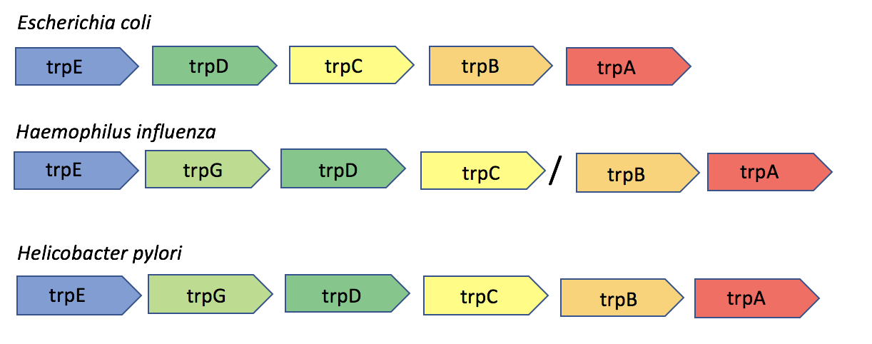 adjacency of trpA and trpB genes are conserved in three different genomes